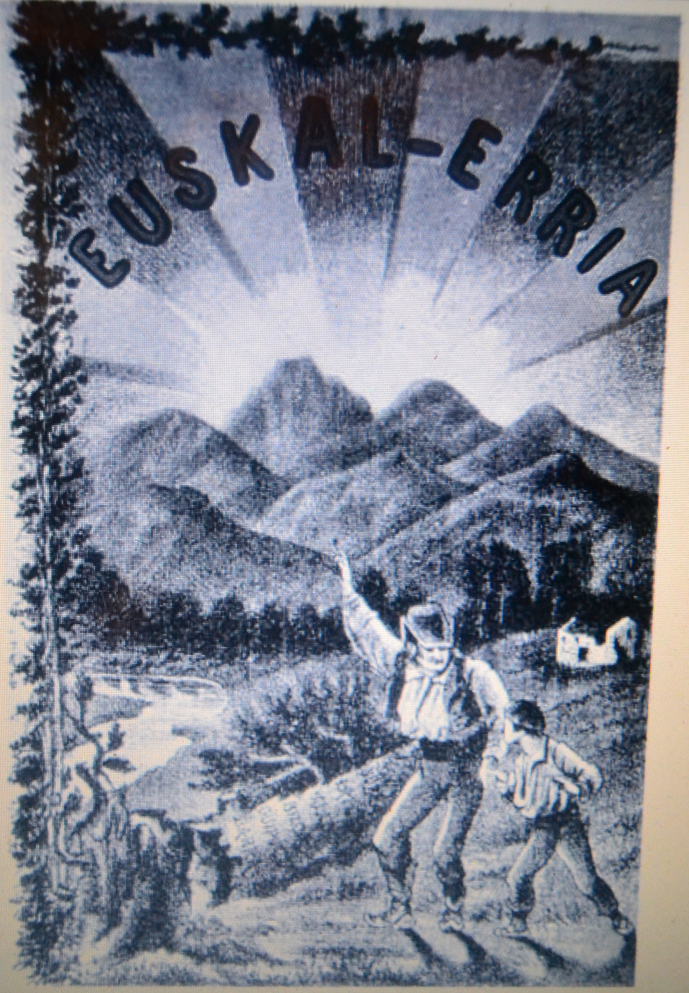 Euskal-Erria euskal kultur aldizkariaren azala, 1880. - Portrait of Euskal-Erria basque culture publication, 1880.